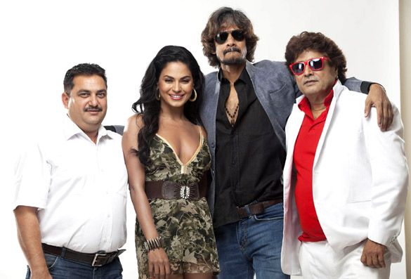 Veena Malik at Special photo shoot for the cast of 'Dal Mein Kuch Kala Hai'